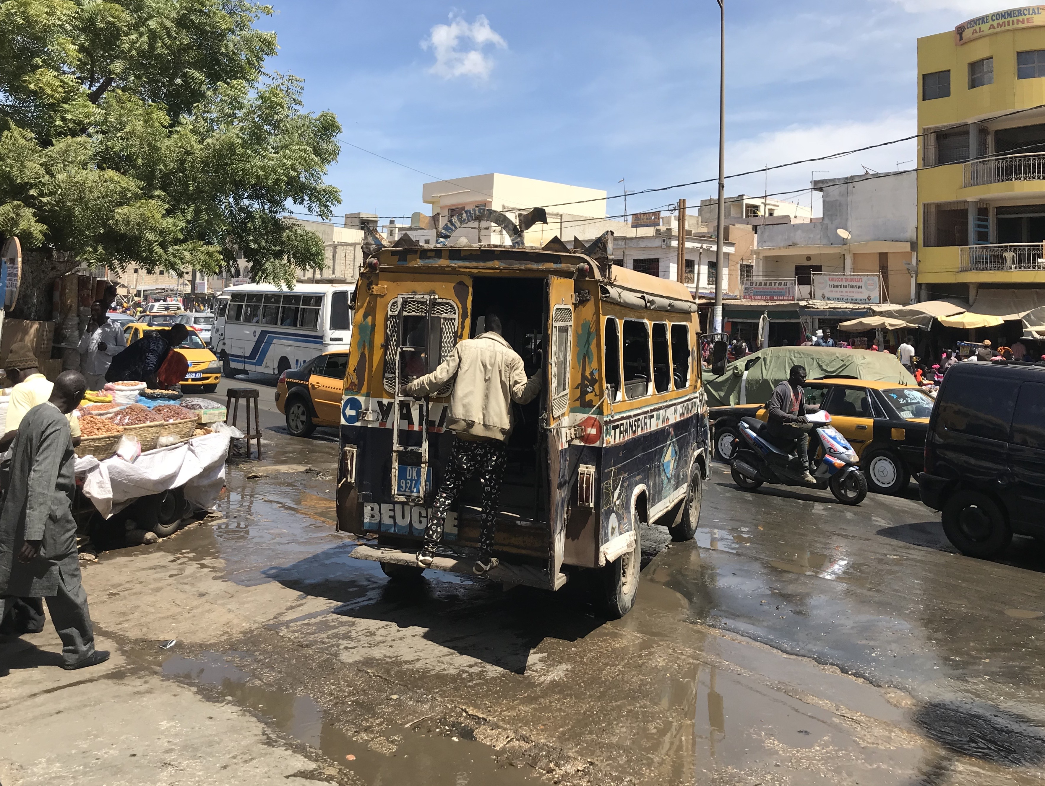 This is an image with the theme "Africa on the Move or Transport" from: Senegal